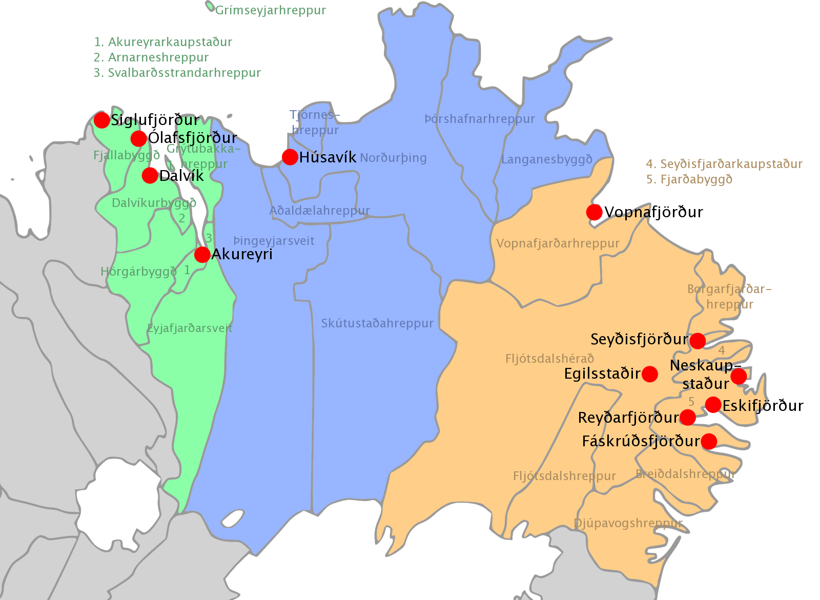 A map of the northeastern electoral district in Iceland with names of municipalities and largest towns.